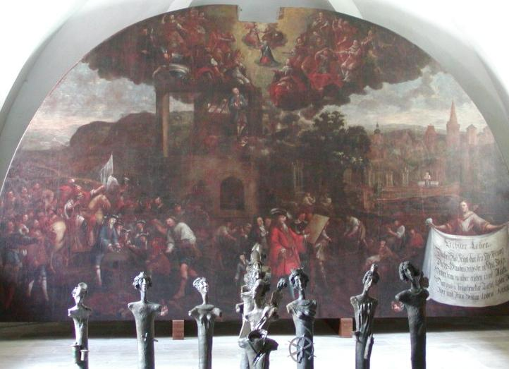 Picture of the Kadaň Monastery legend with statues of the 14 Holy Helpers.